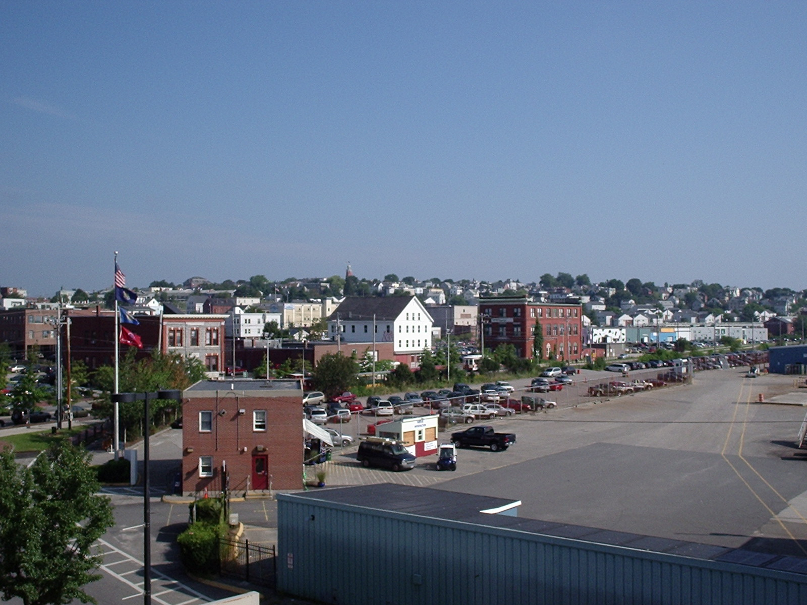 East End neighborhood of Portland, Maine, United States.